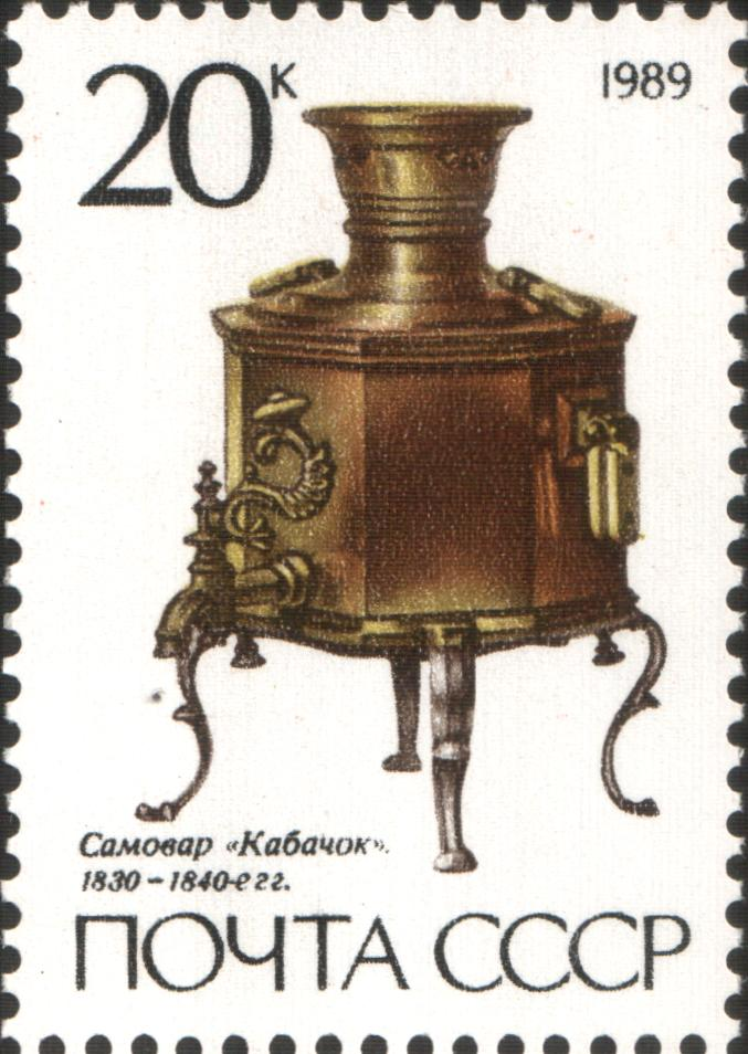 A USSR stamp, "Squash" samovar.